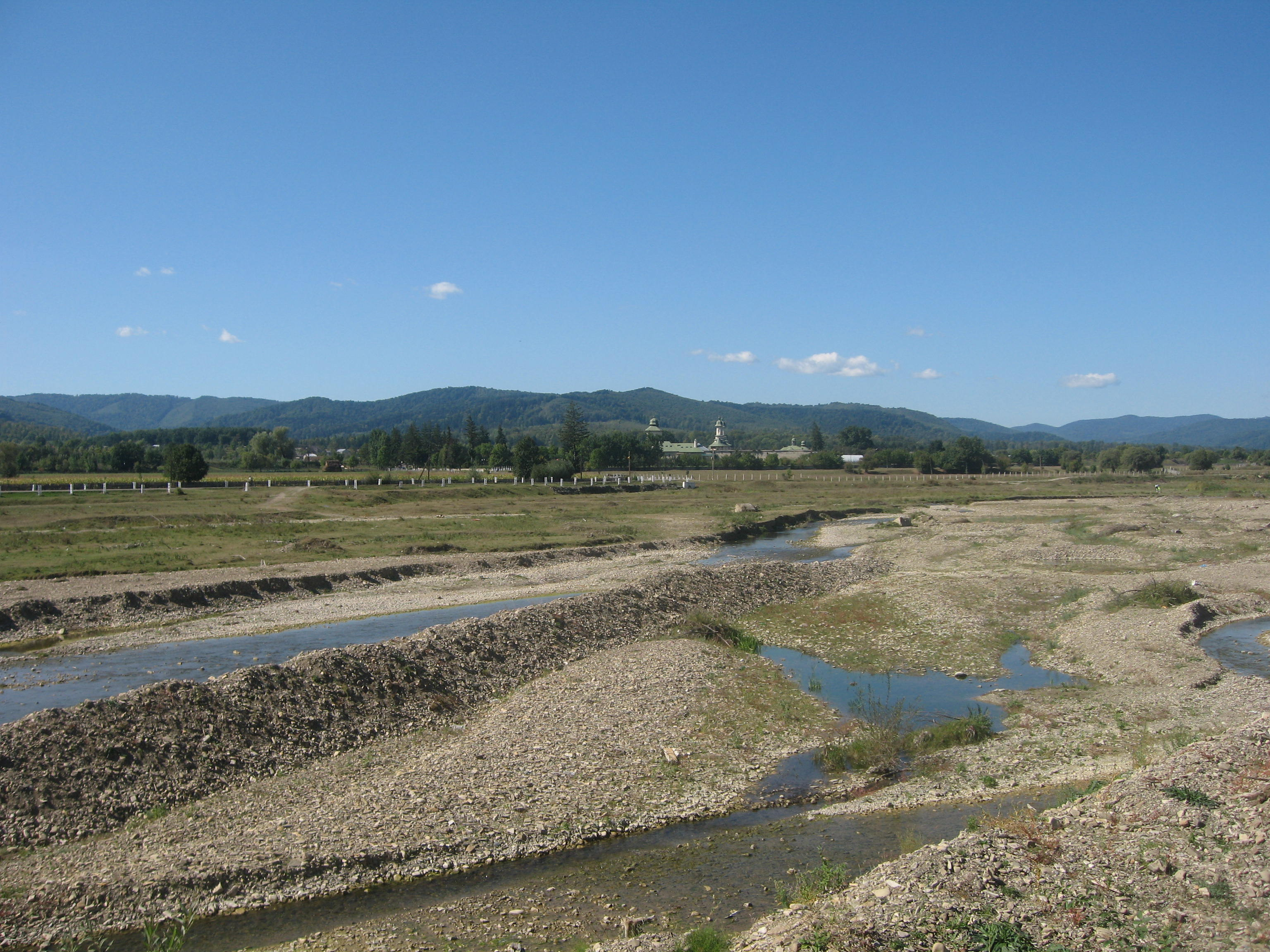 Râşca Monastery